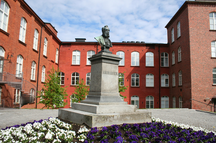 Wahren centre in Forssa, Finland. Statue of Axel Wilhelm Wahren by Walter Runeberg.